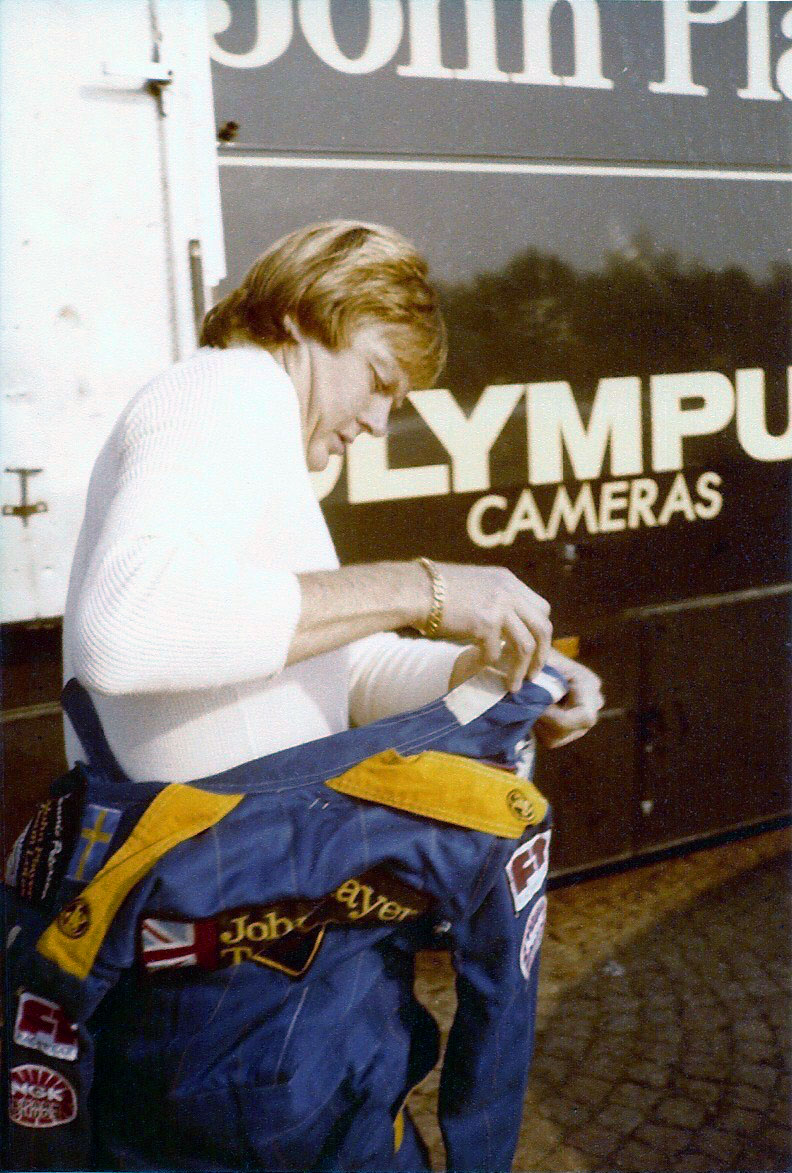 Test goodyear 78 Ronnie Petterson